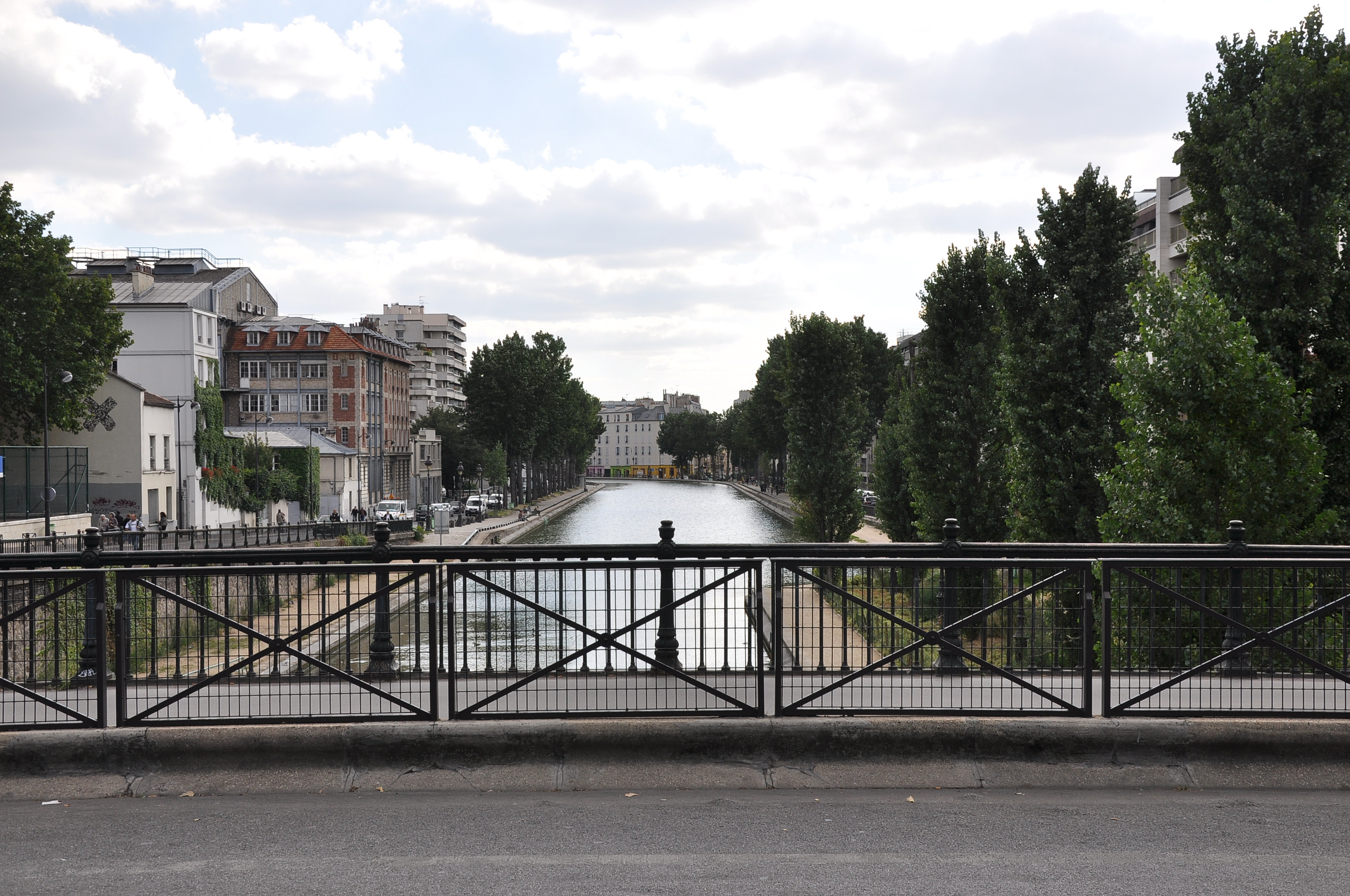 on the Canal Saint-Martin in Paris 10th district France.